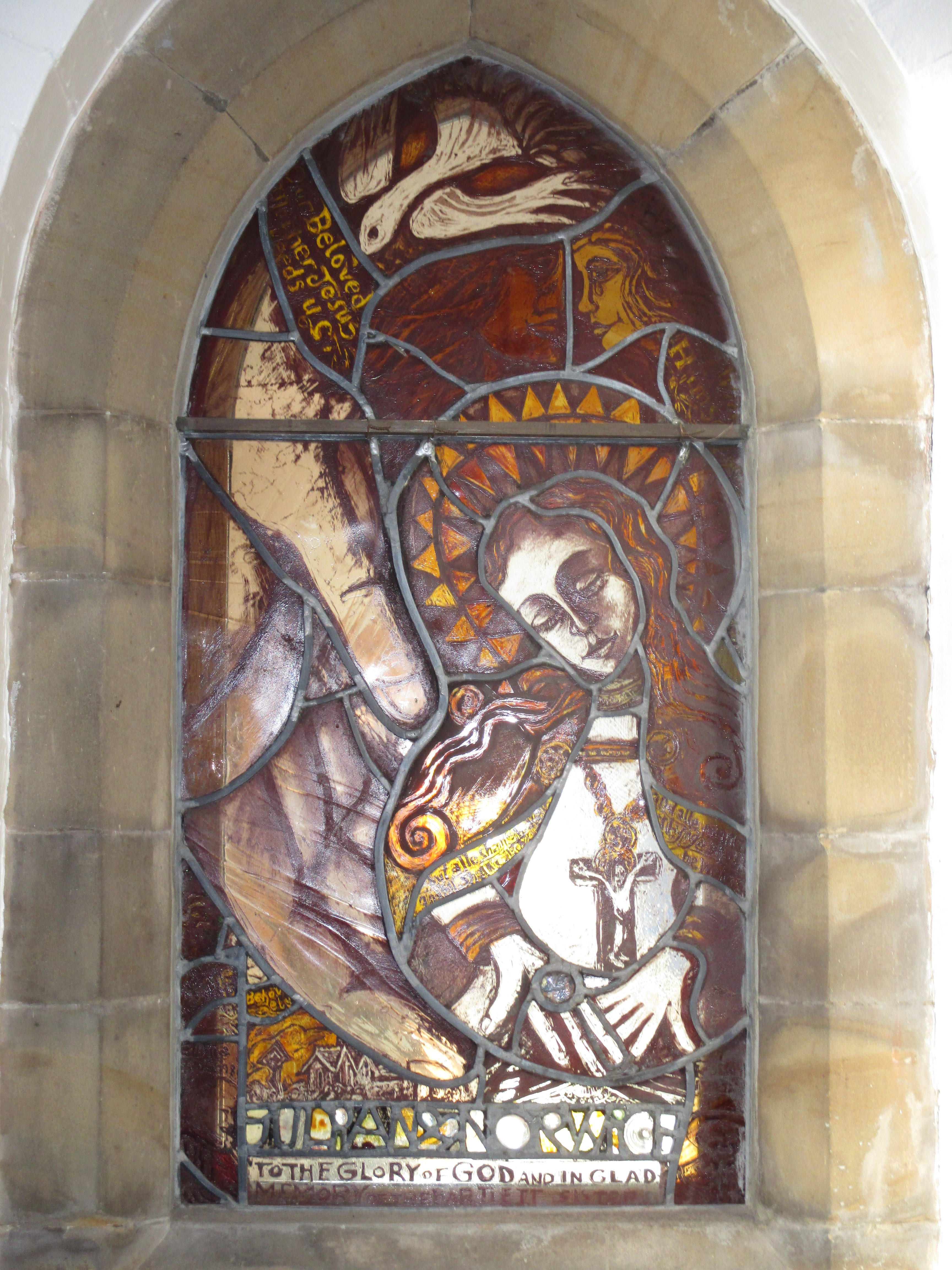 The second north aisle window of St Augustine's Church, Scaynes Hill, West Sussex. It was produced by Rosalind Grimshaw in 2002, and depicts Julian of Norwich.